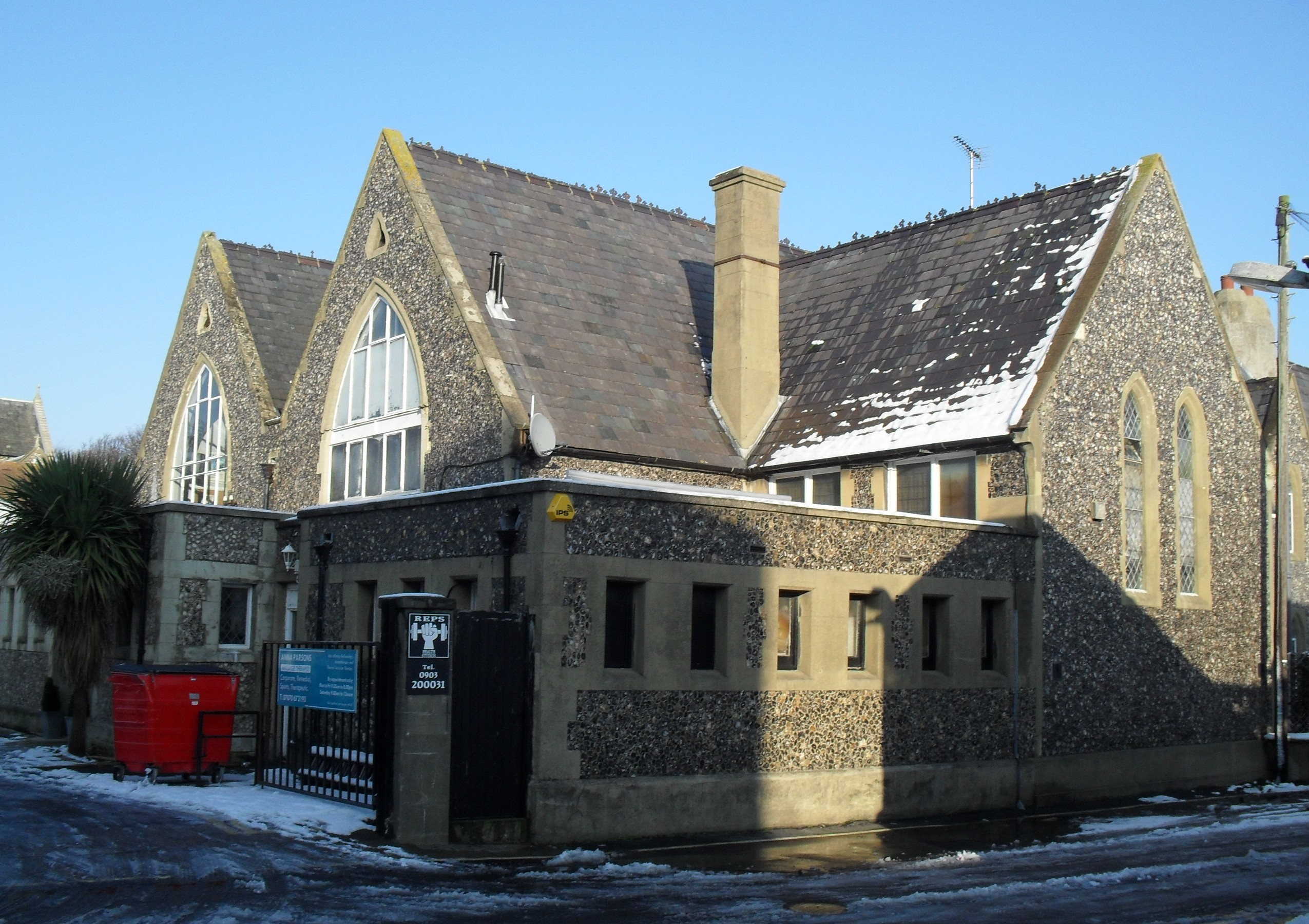 Former Christ Church School, Grafton Road, Worthing, West Sussex, England. . Built about 1850. Now in commercial use.